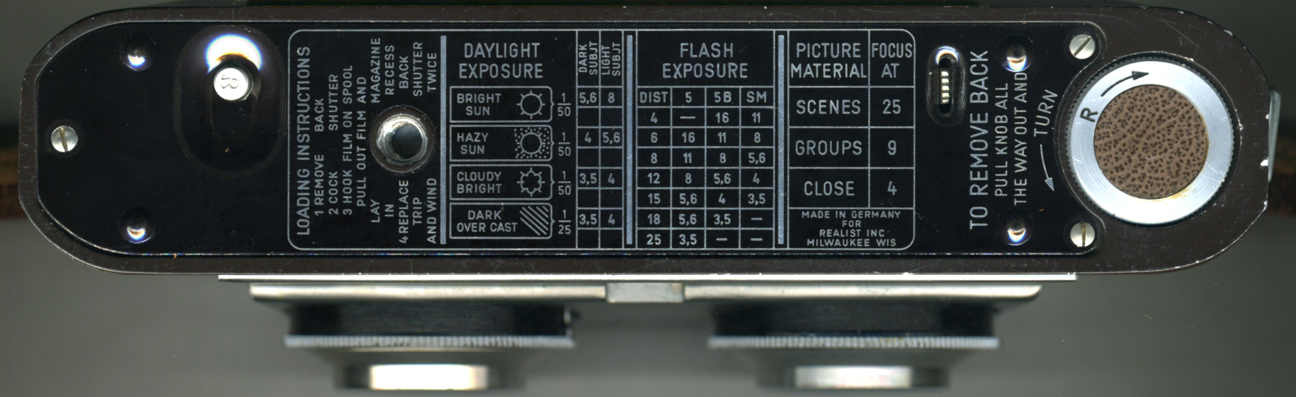 The Realist 45 stereo camera, viewed from the bottom